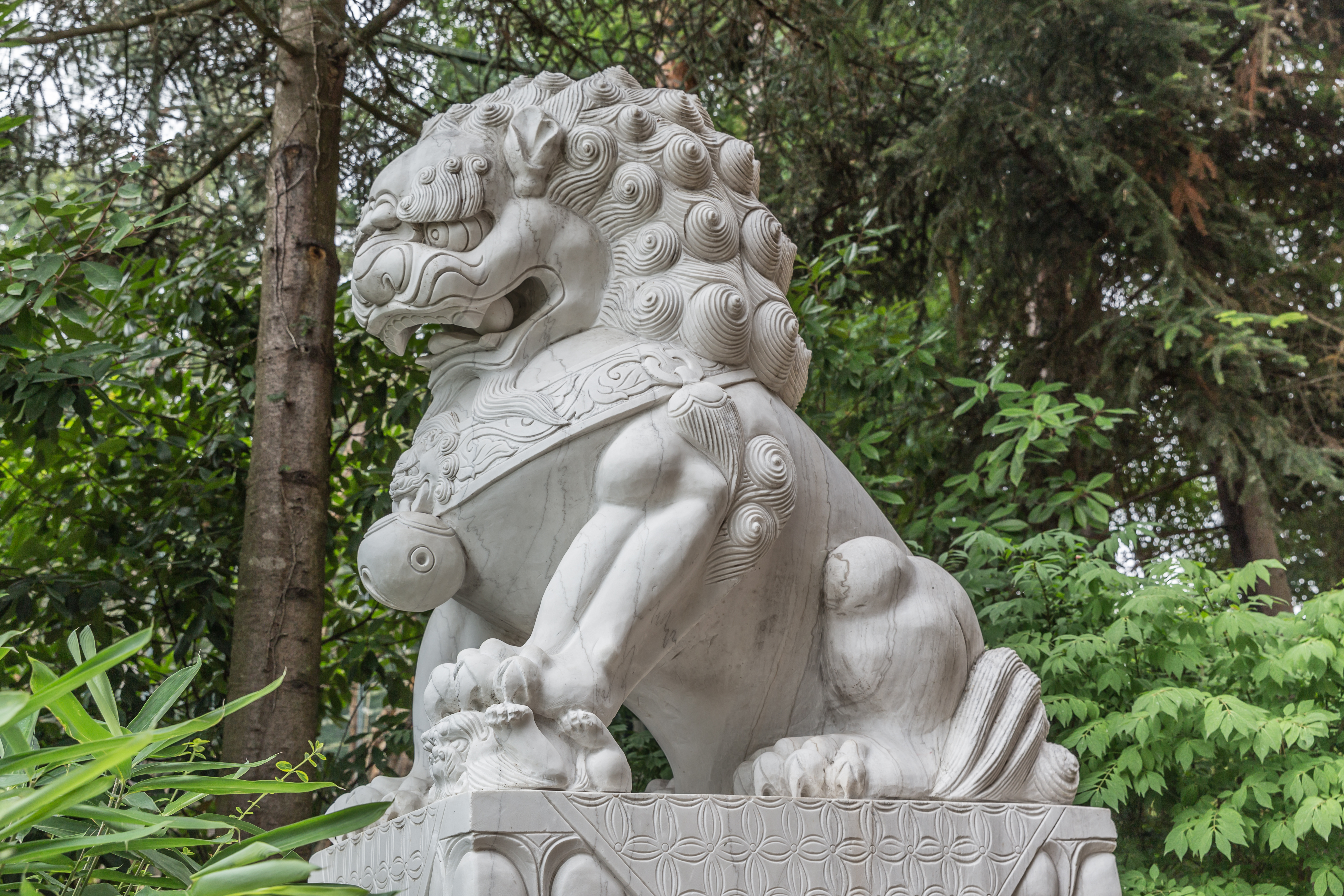 Marble statue in the ZooParc de Beauval in Saint-Aignan-sur-Cher, France.